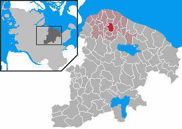 This map shows the area of the Gemeinde (municipality) Fiefbergen in the Kreis (district) Plön, Schleswig-Holstein, Germany.